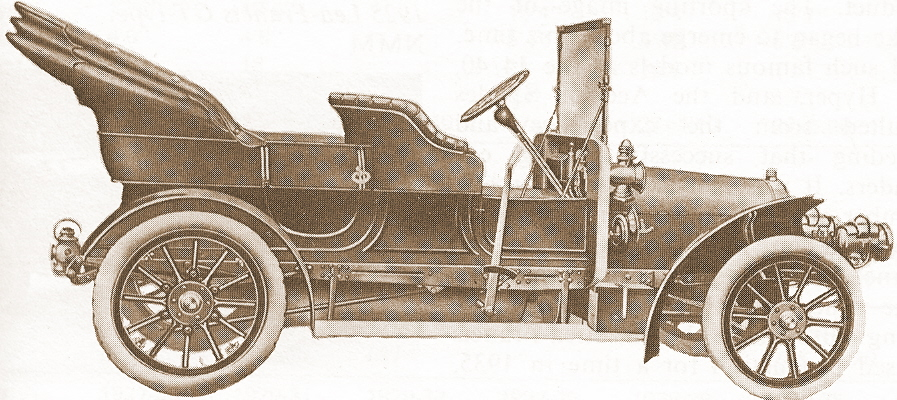 1907 Leader 24/32 hp Tourer